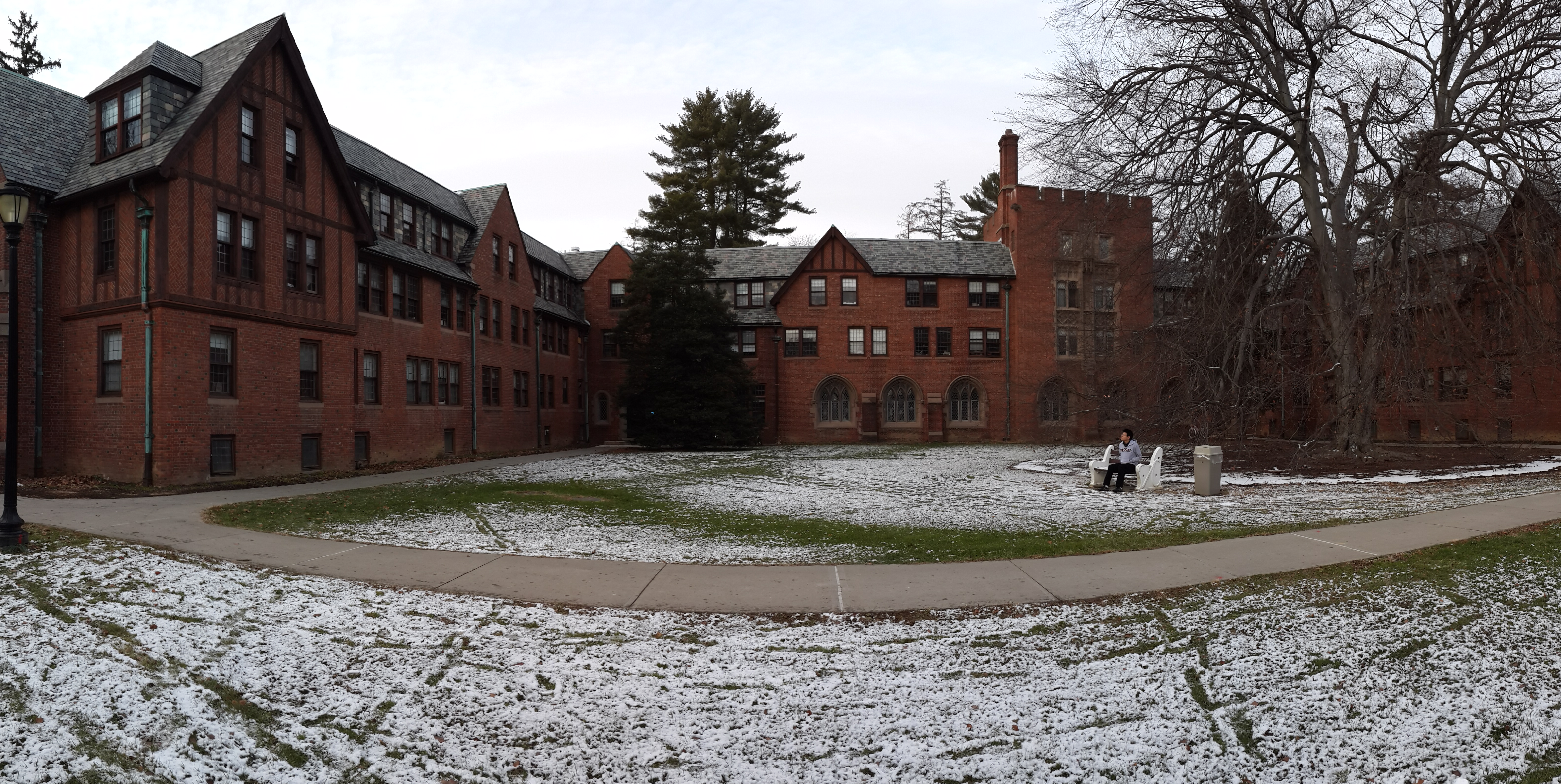 A panoramic view of the courtyard of Cushing House at Vassar College.